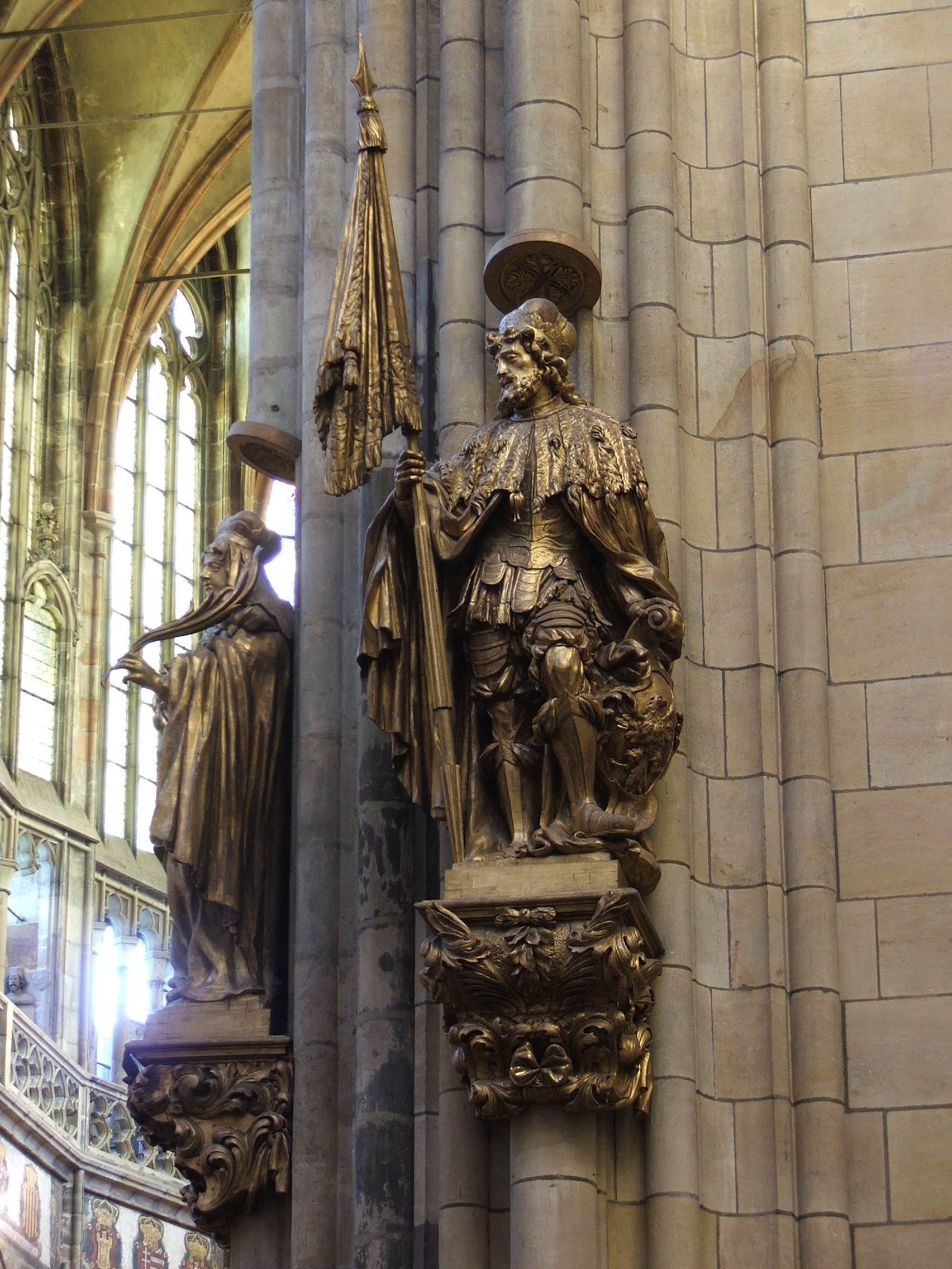 Statue of St. Wenceslaus inside the St. Vitus Cathedral in Prague, Czechia